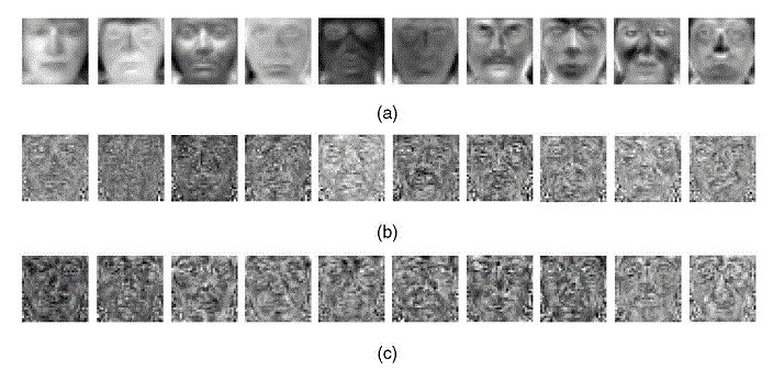 The first 10 (a), (b) Fisherfaces, and (c) Laplacianfaces calculated from the face images in the YALE database.